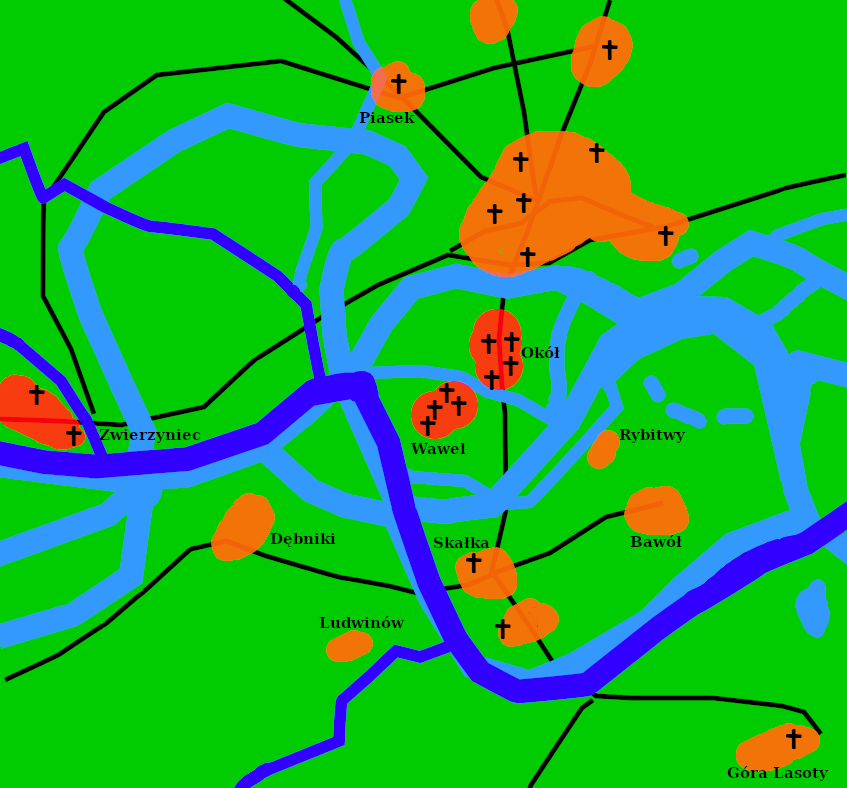 Kraków in the 11th to 13th century, based on [1] and [2]